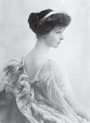 Portrait of Consuelo Vanderbilt; Lady Spencer-Churchill, Duchess of Marlborough